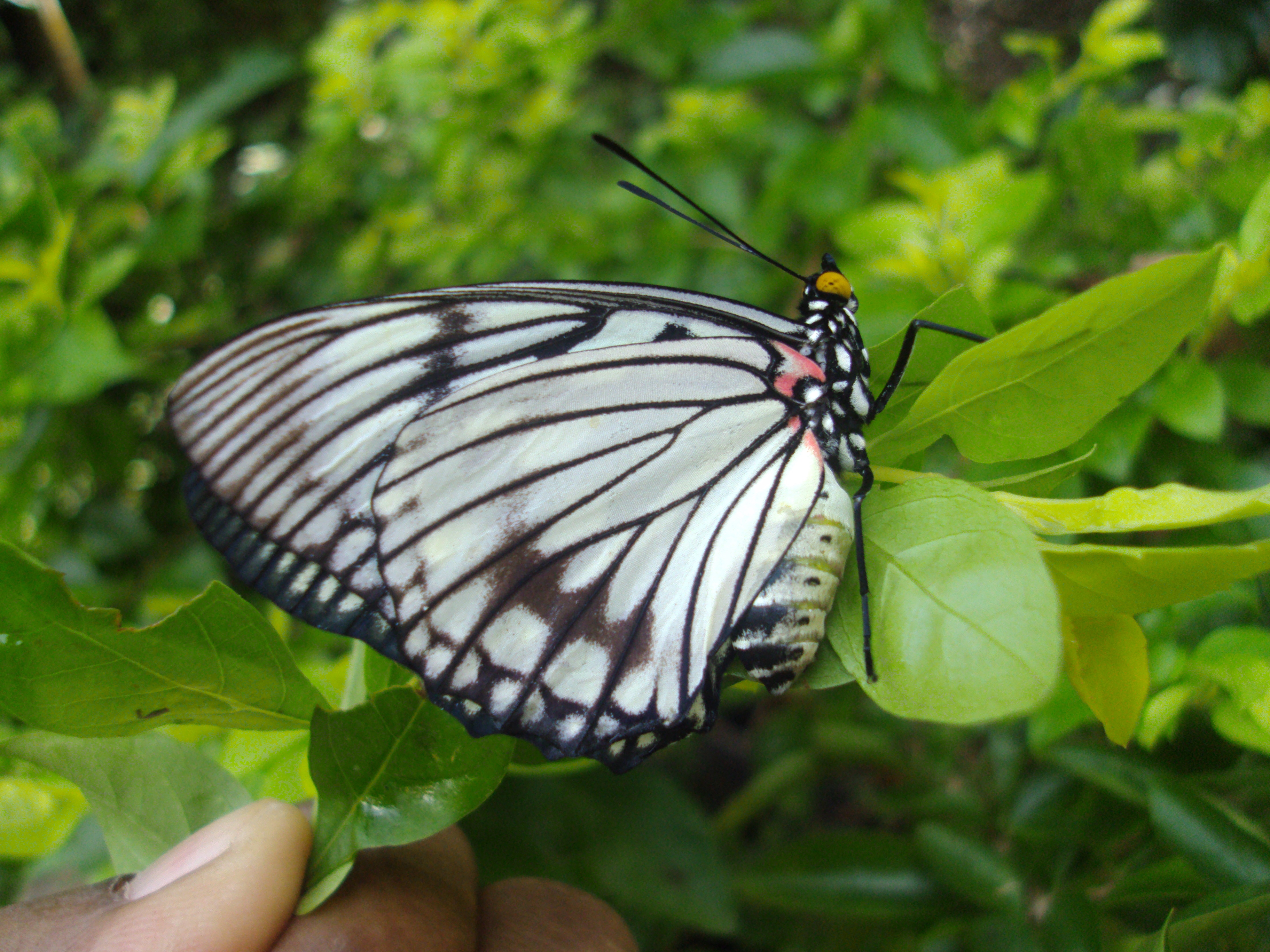 Euripus consimilis -Painted Courtesan Female